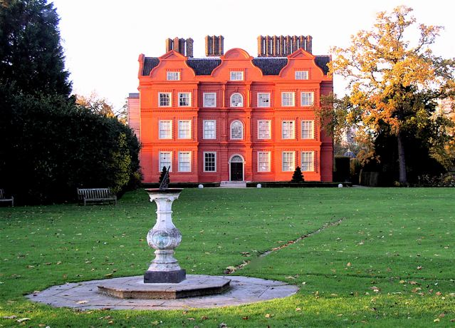 The Palace in the grounds of Kew Gardens